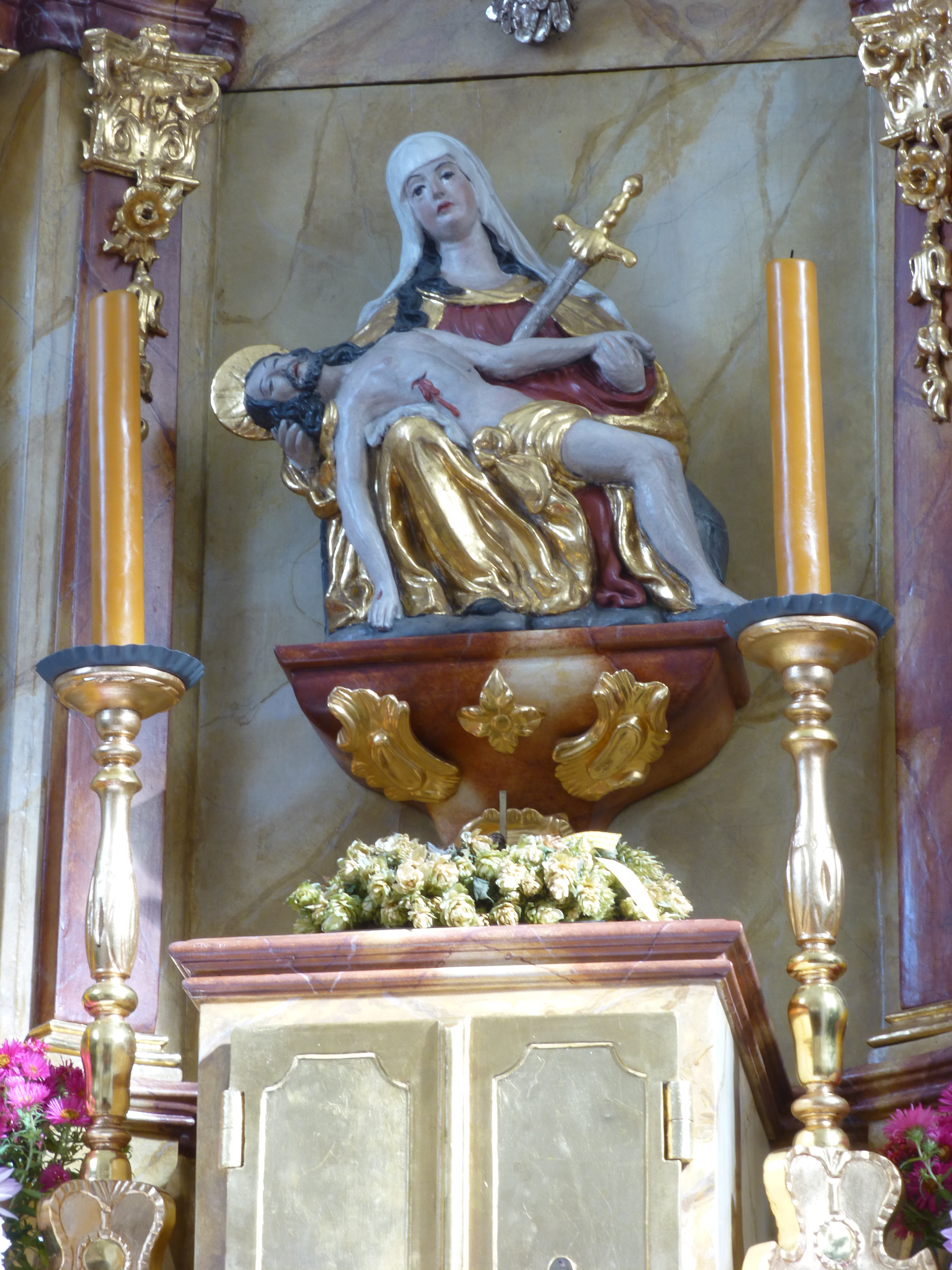 The hermitage of Frauenbründl, Bad Abbach, 'Gnadenbild'